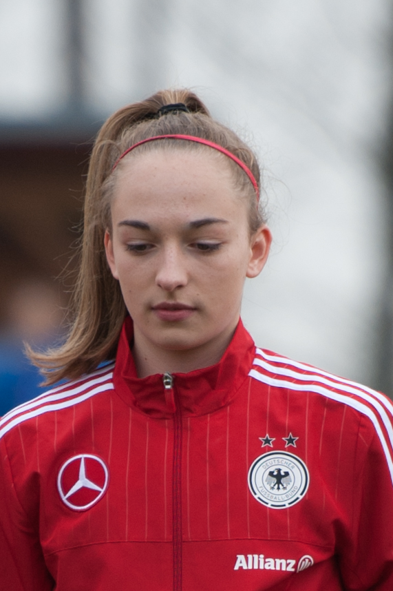 UEFA European Women's U17 Championship elite round Germany vs. Switzerland, 2016-03-19